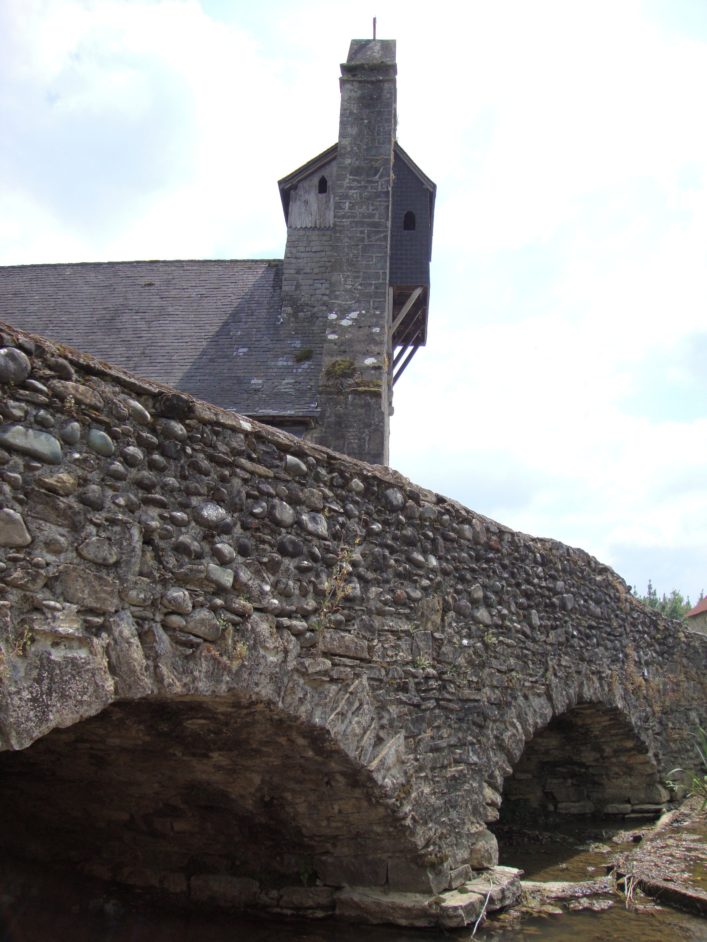 Abense-de-Bas (Viodos-Abense-de-Bas, Pyr-Atl, Fr) bridge and church tower (trinitarian bell gable with resonance-box).